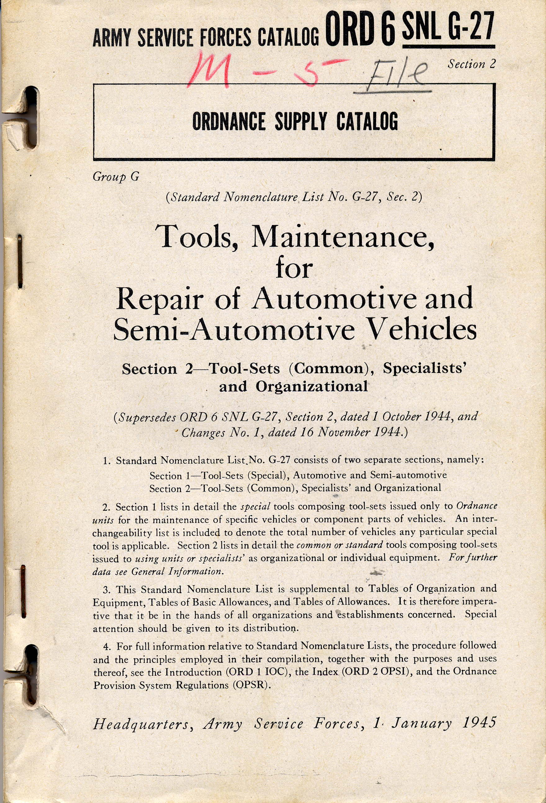 Cover of SNL G-27 tool lists 1945